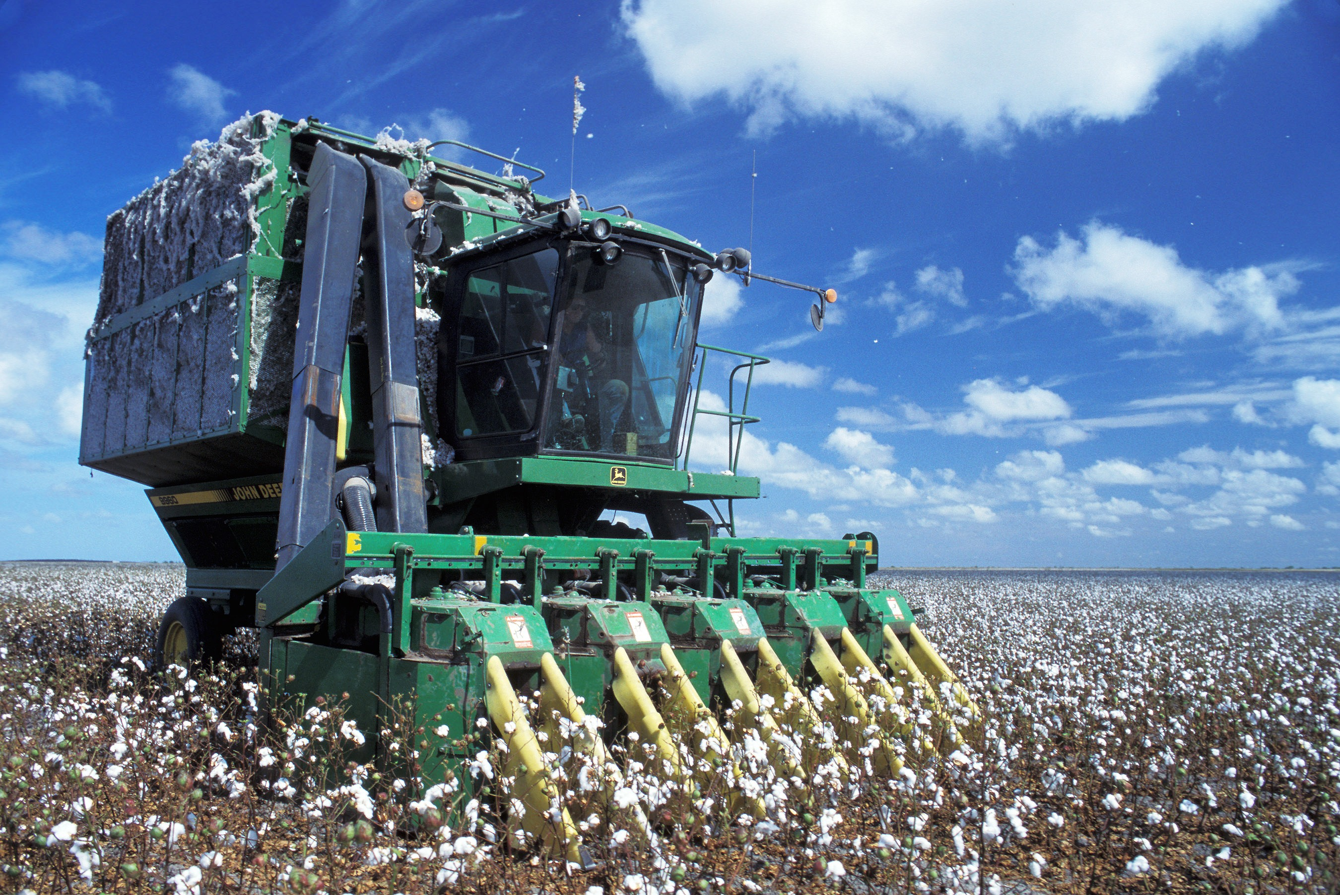 John Deere 9960 cotton harvester/picker